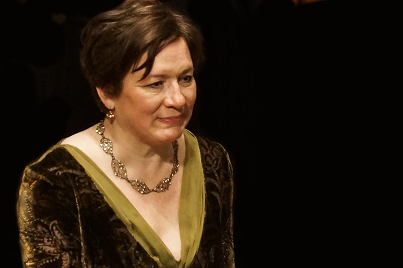 Lilli Paasikivi during performance of Mahler's 3rd symphony in Aarhus, Denmark 2017